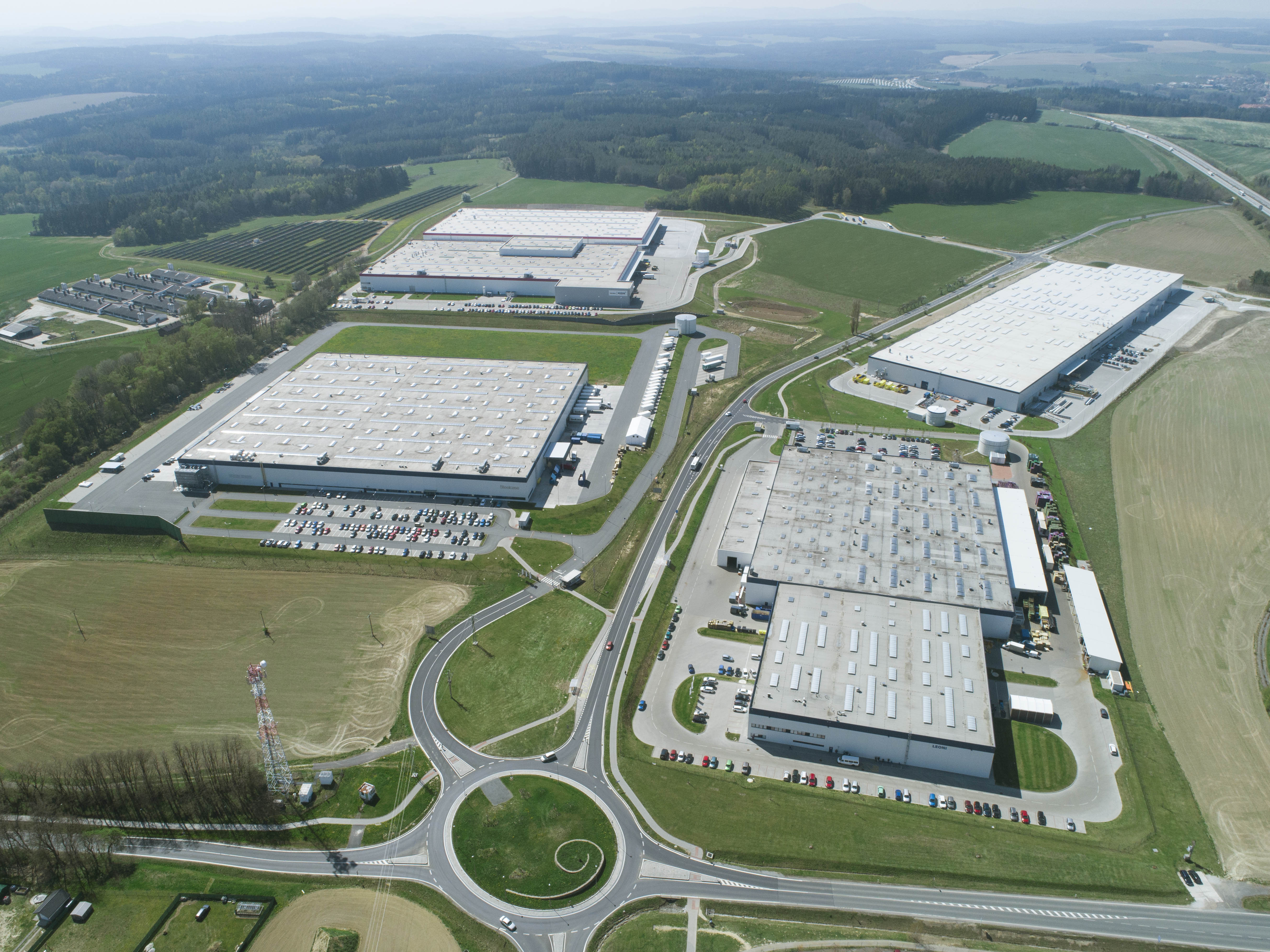 The picture of Accolade industrial park in Stříbro